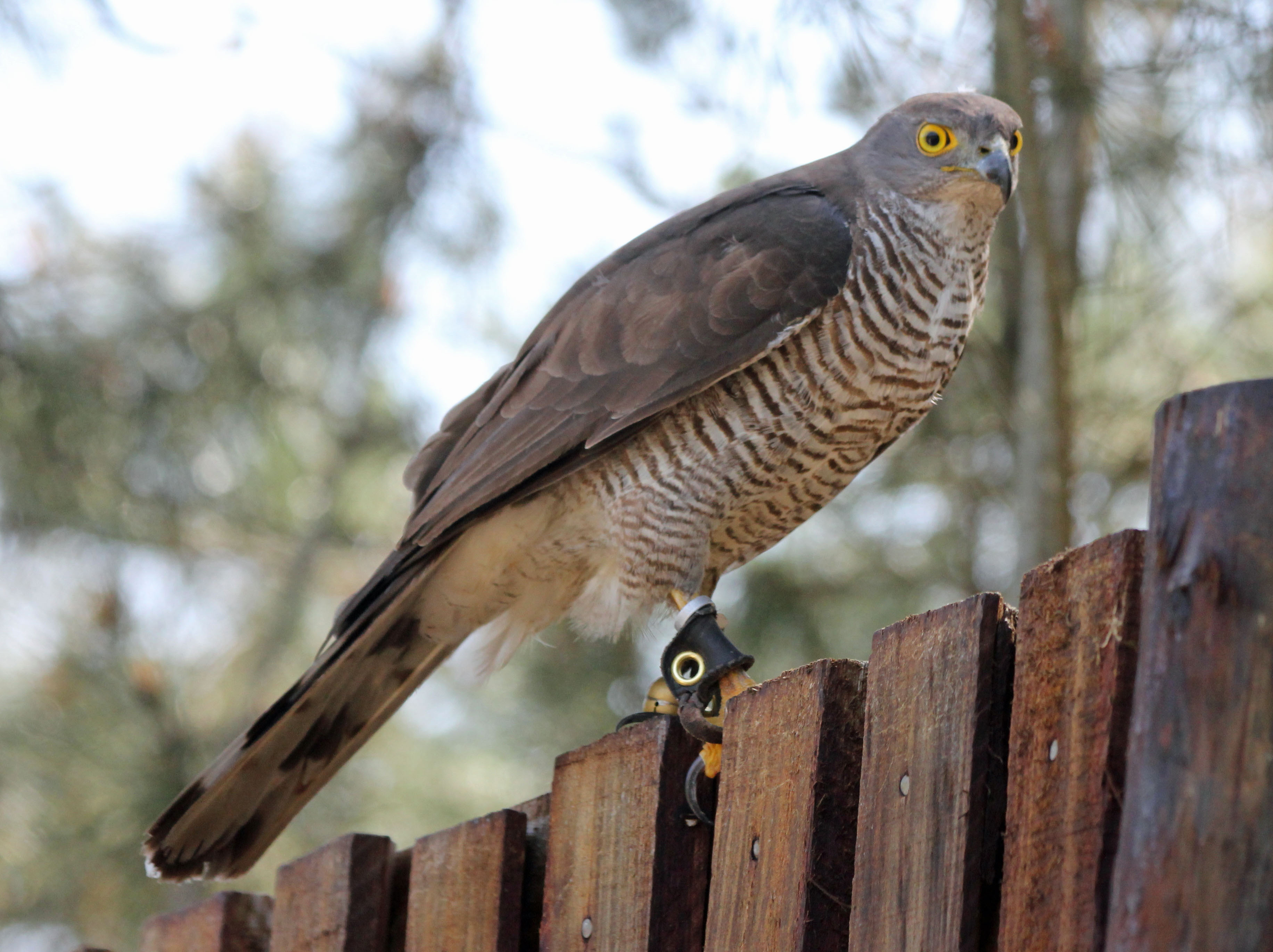 African_Goshawk (Accipiter tachiro) at Eagle Encounters, South Africa